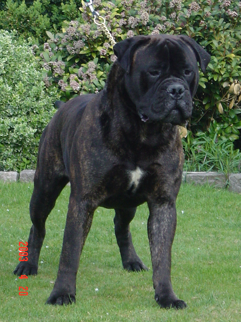 Picture of a Bullmastiff.